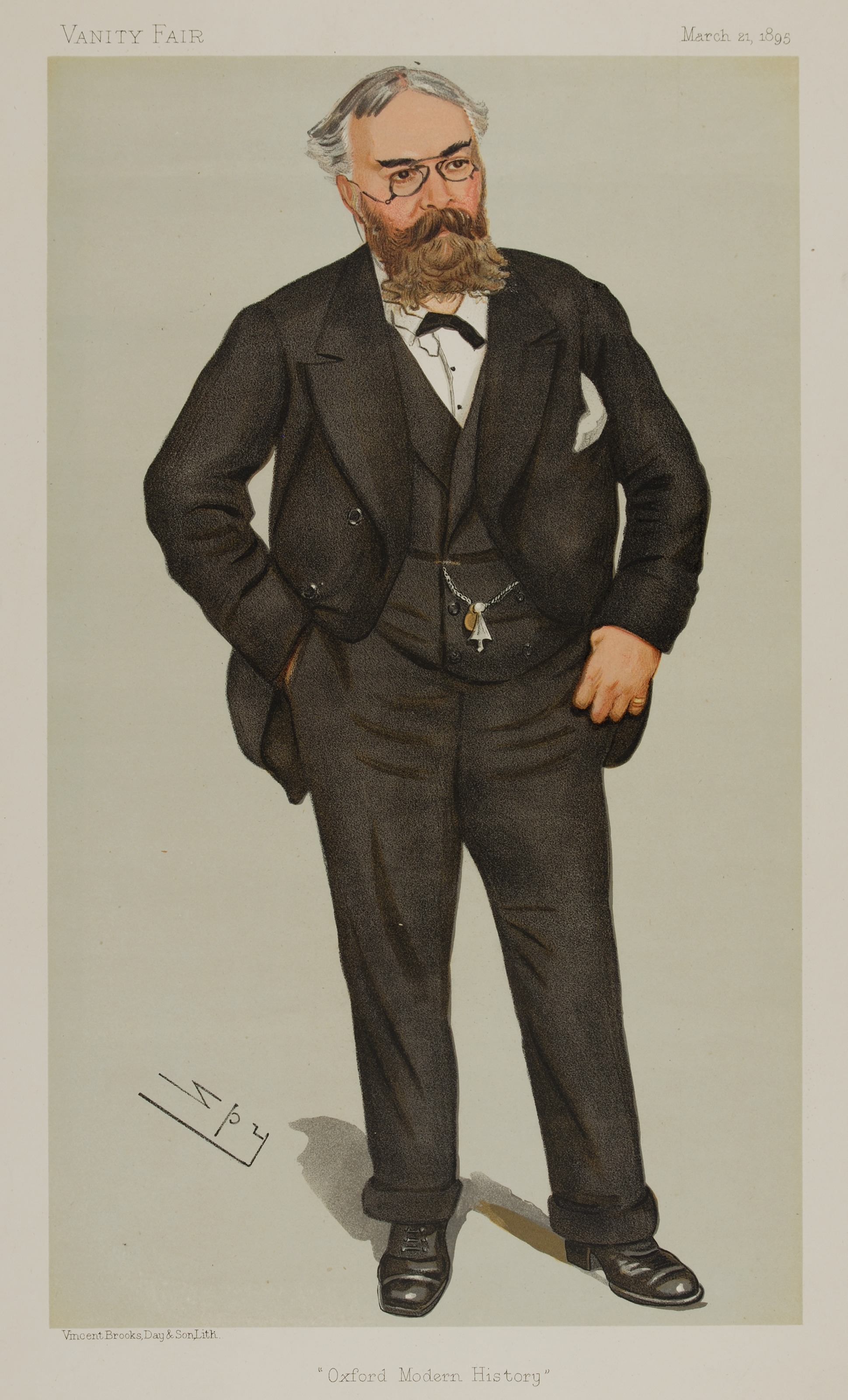 Men of the Day No. 615: Caricature of Frederick York Powell (1850-1904). Caption read "Oxford Modern History".